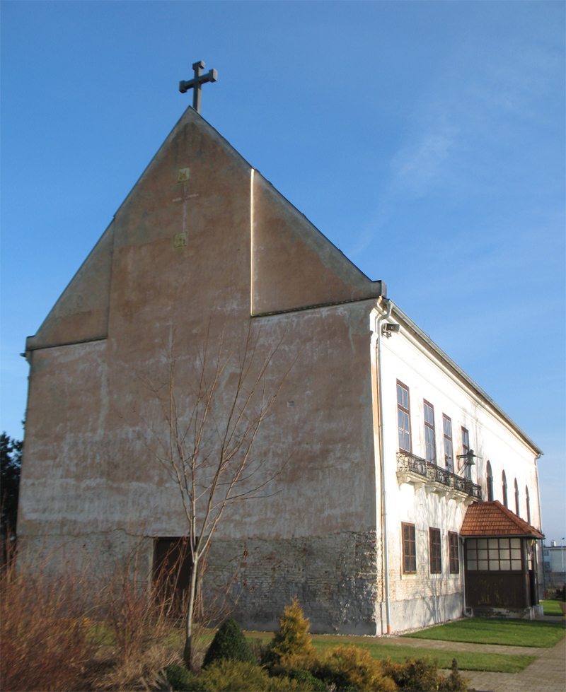 Church of Králová pri Senci